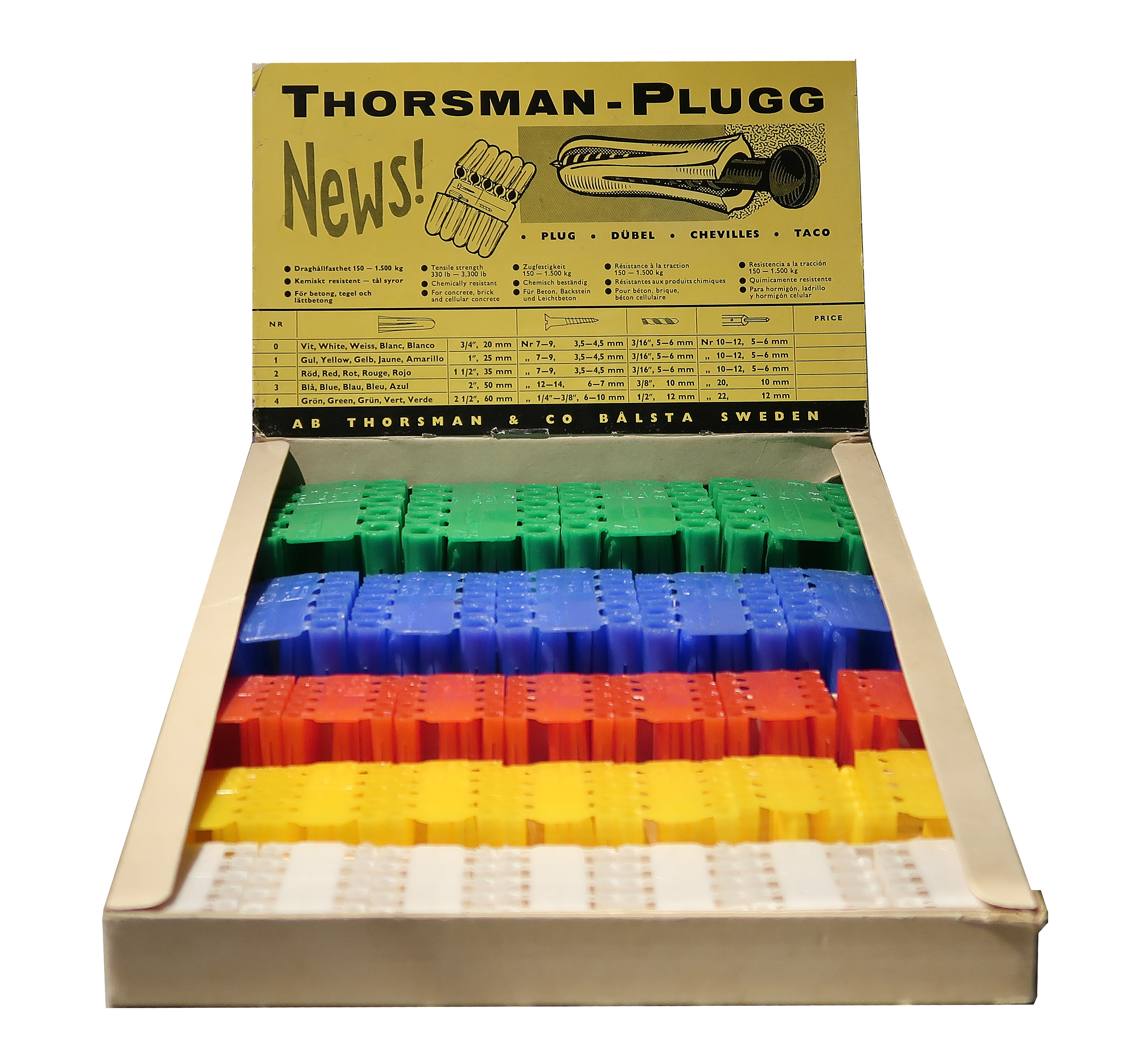 The color-coded Thorsman plug is designed to attach details in, for example, brick or concrete walls, patented by Oswald Thorsman in 1957.